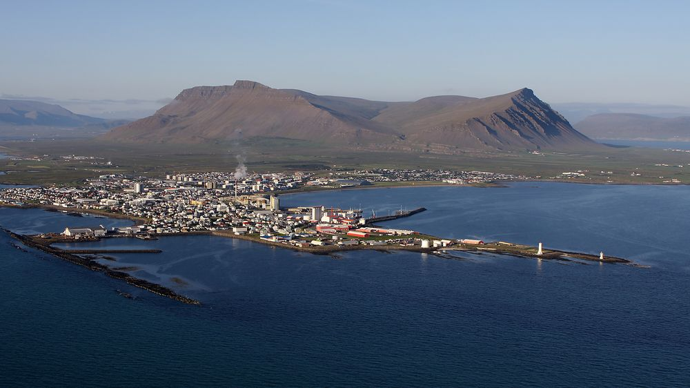 Akranes